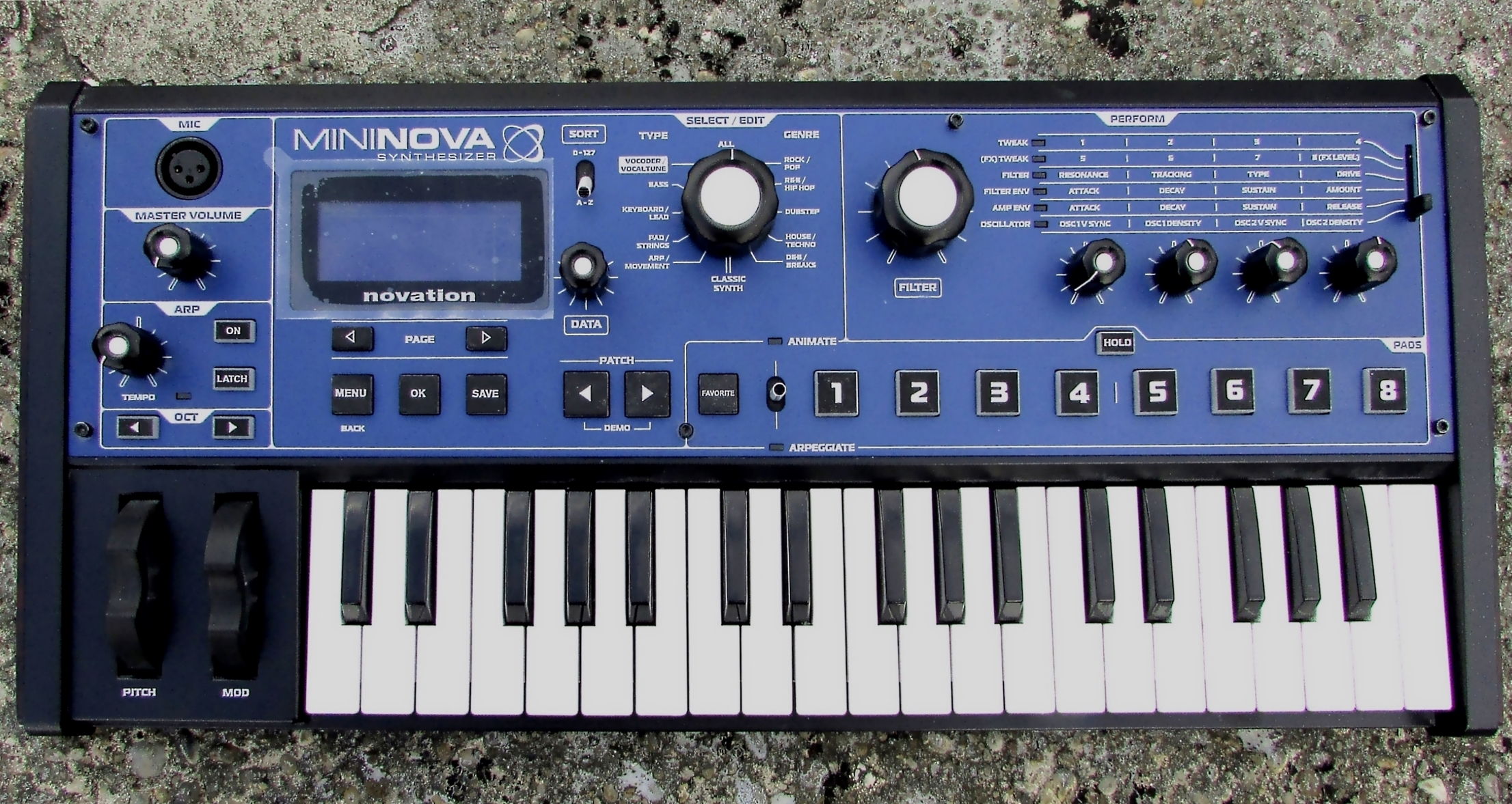 Novation MiniNova